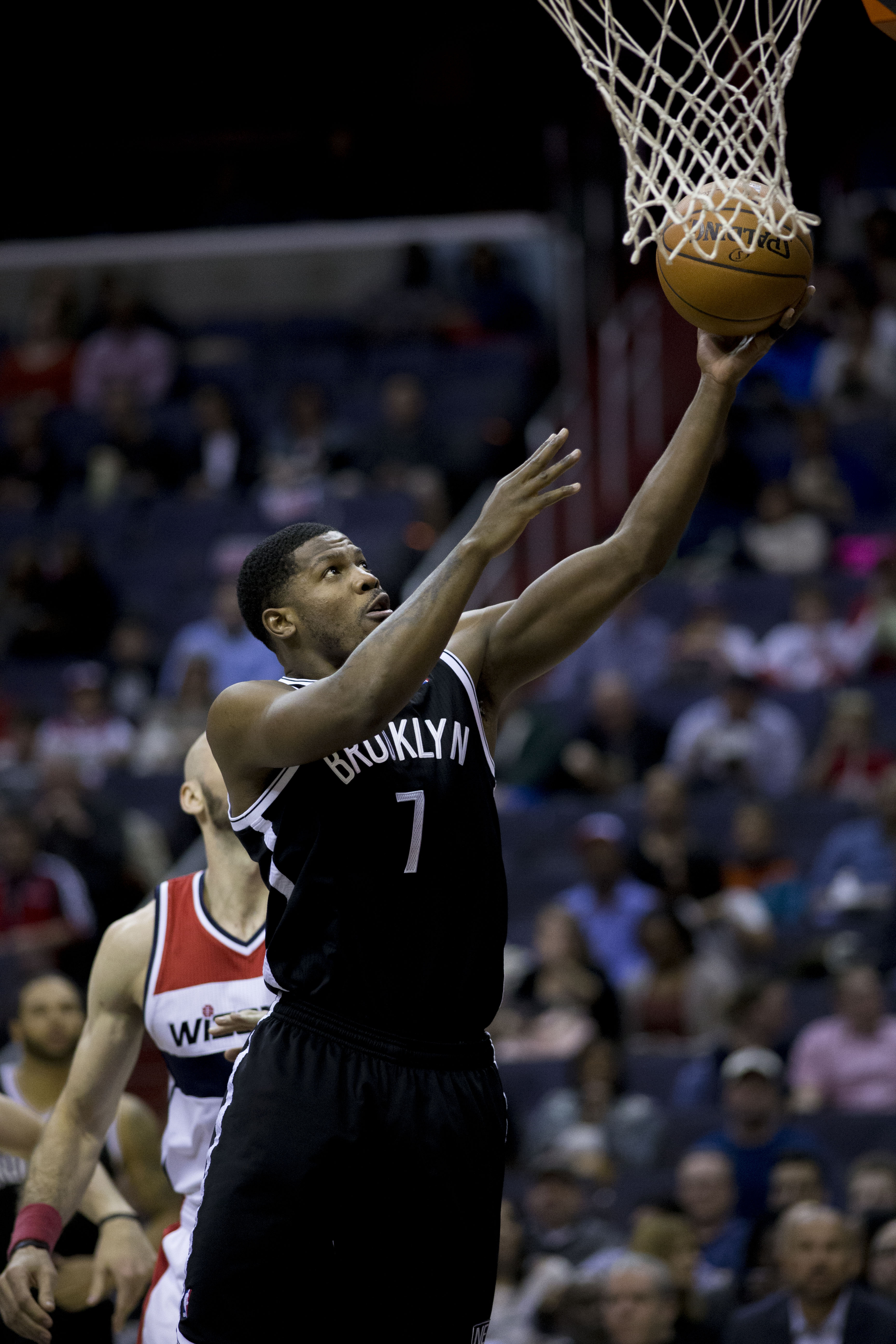 Joe Johnson #7 of the Brooklyn Nets in a game against the Washington Wizards at the Verizon Center on March 15, 2014 in Washington, DC.